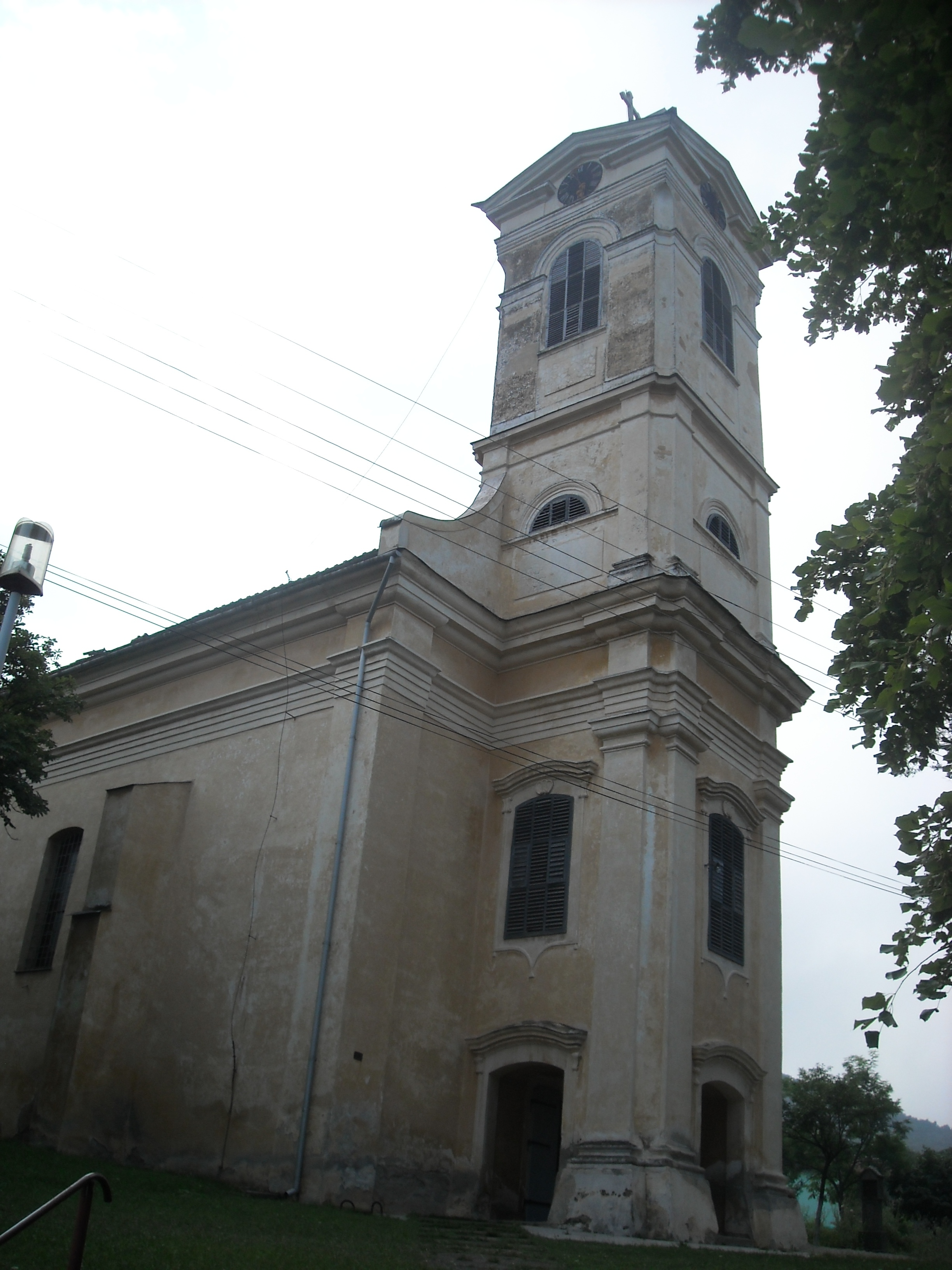 Roman Catholic church in Şiria/Világos/Hellburg, Romania